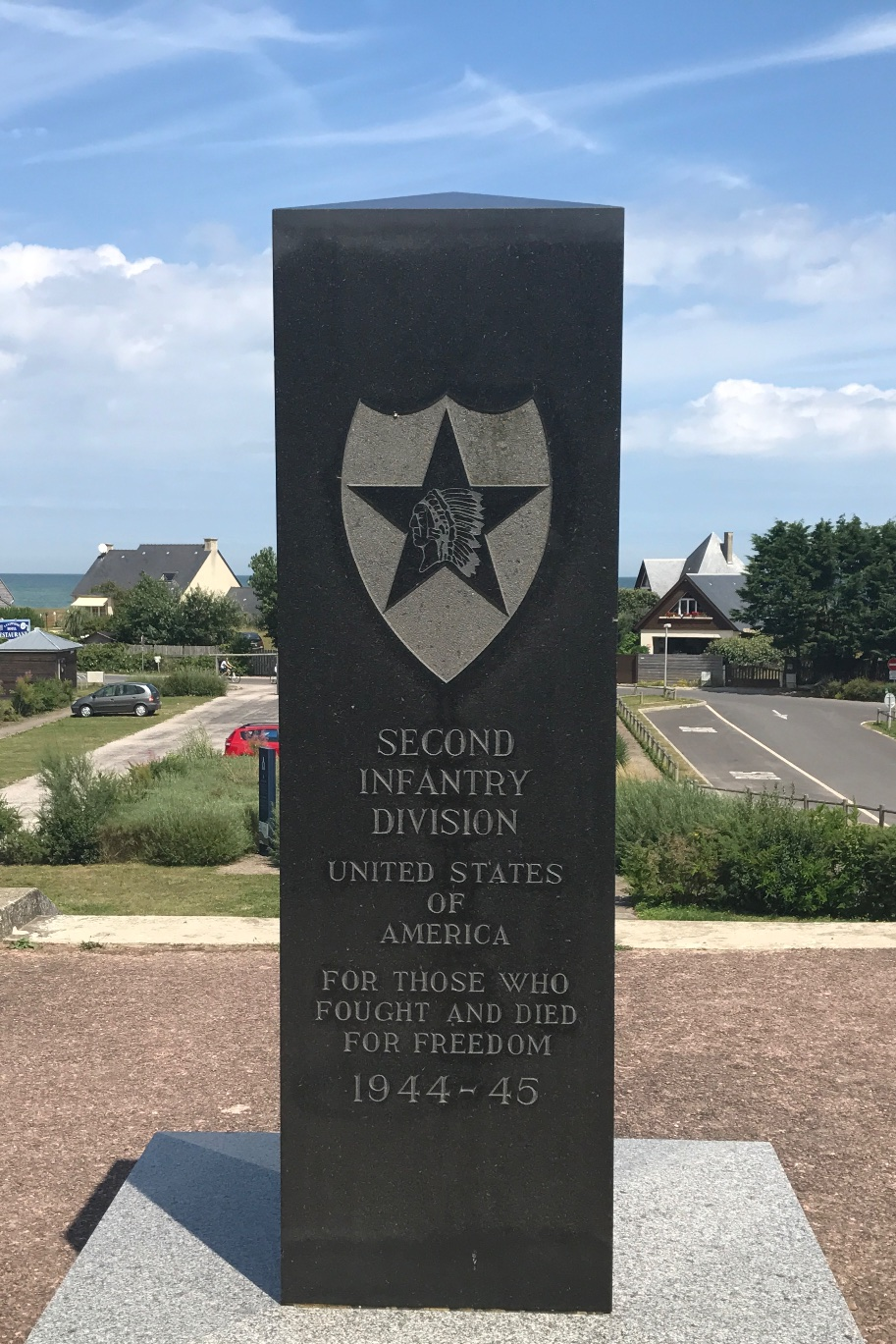 World War II monument to the 2nd Infantry Division at Omaha Beach, Normandy, France, by Widerstandsnest 65.